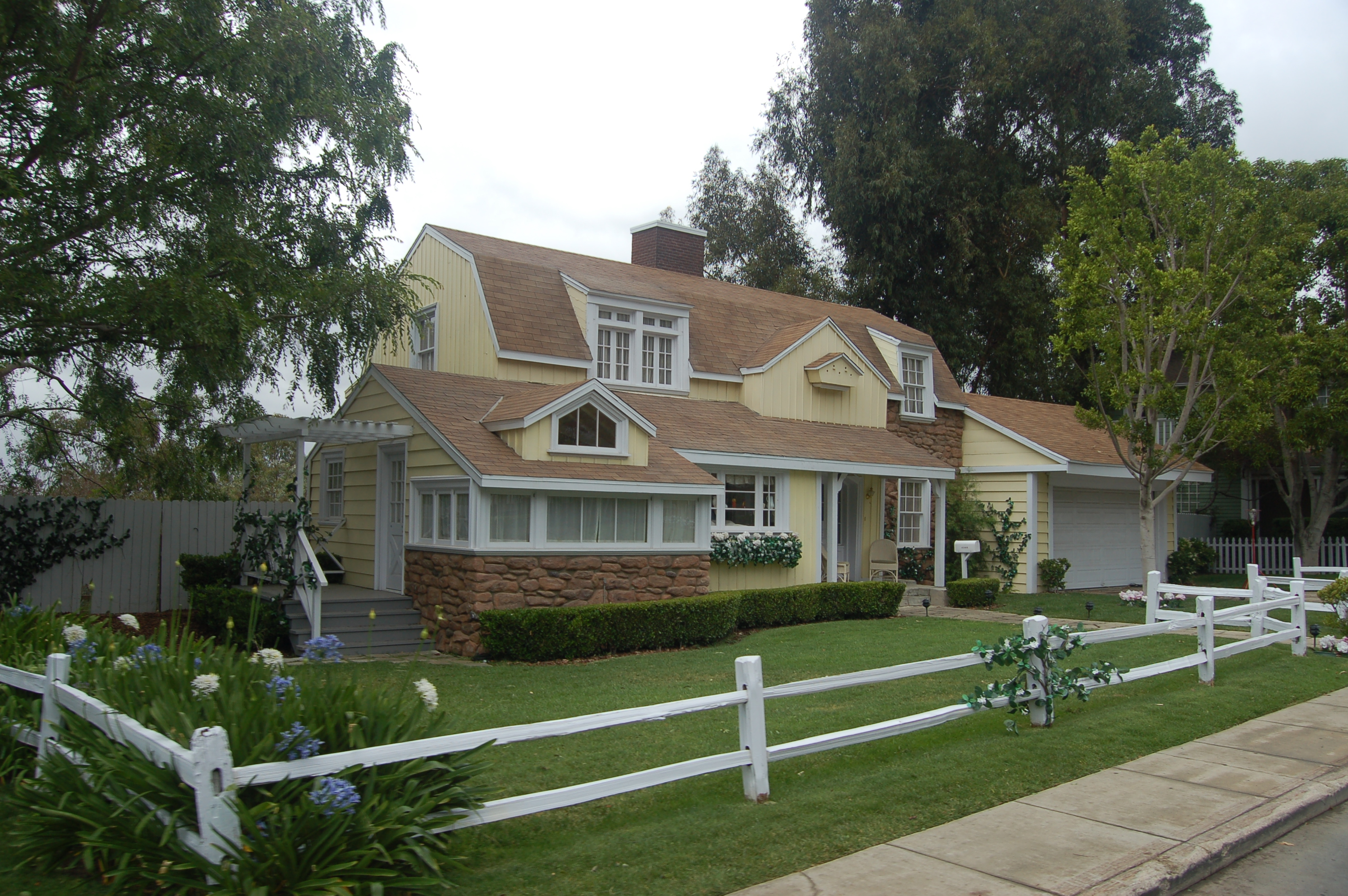 Wisteria Lane - Susan Mayer